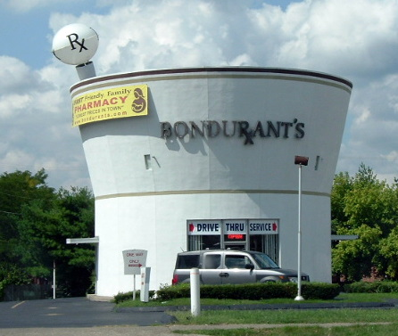 Bondarant Pharmacy, Lexington, Kentucky.